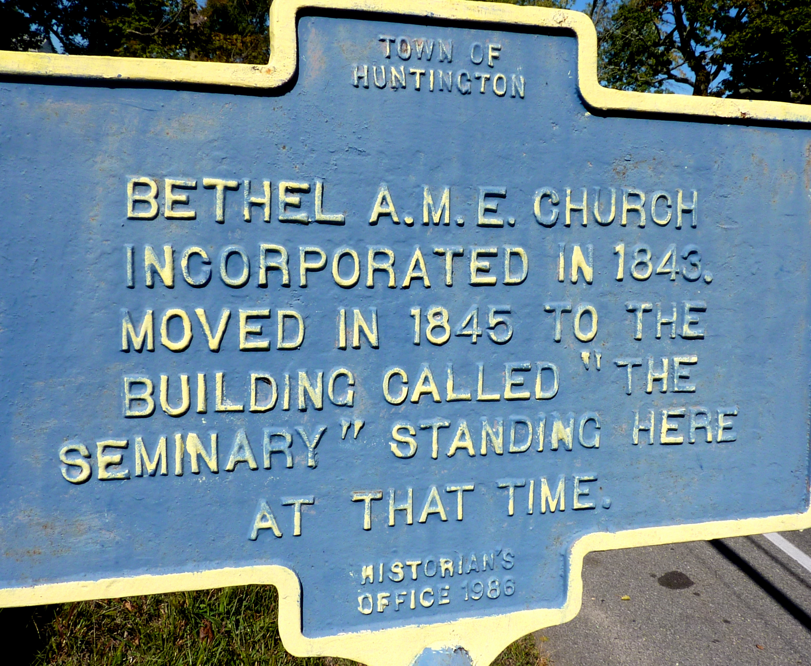 Bethel AME Church and Manse, 291 Park Avenue Huntington